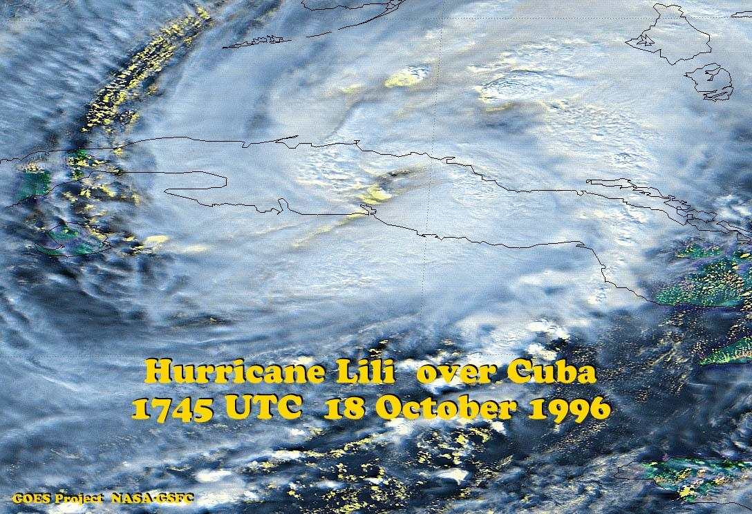 Hurricane Lili making landfall on October 18, 1996